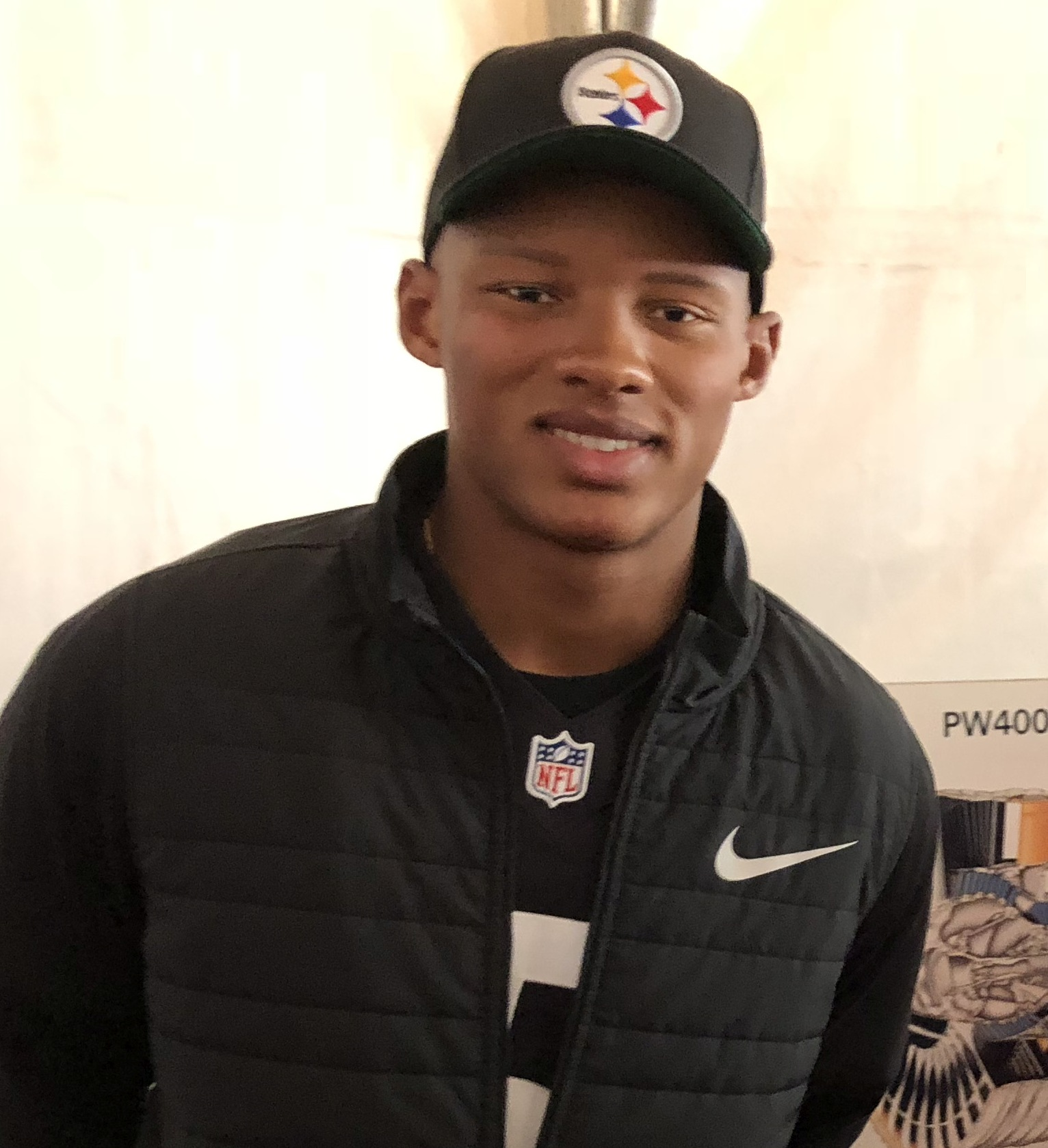 Joshua Dobbs at the Atlanta Science Festival, March 2018